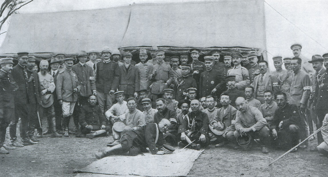 Japanese General Kuroki and his Staffs, Foreign Officiers, War Correspondents after the Battle of Shaho.